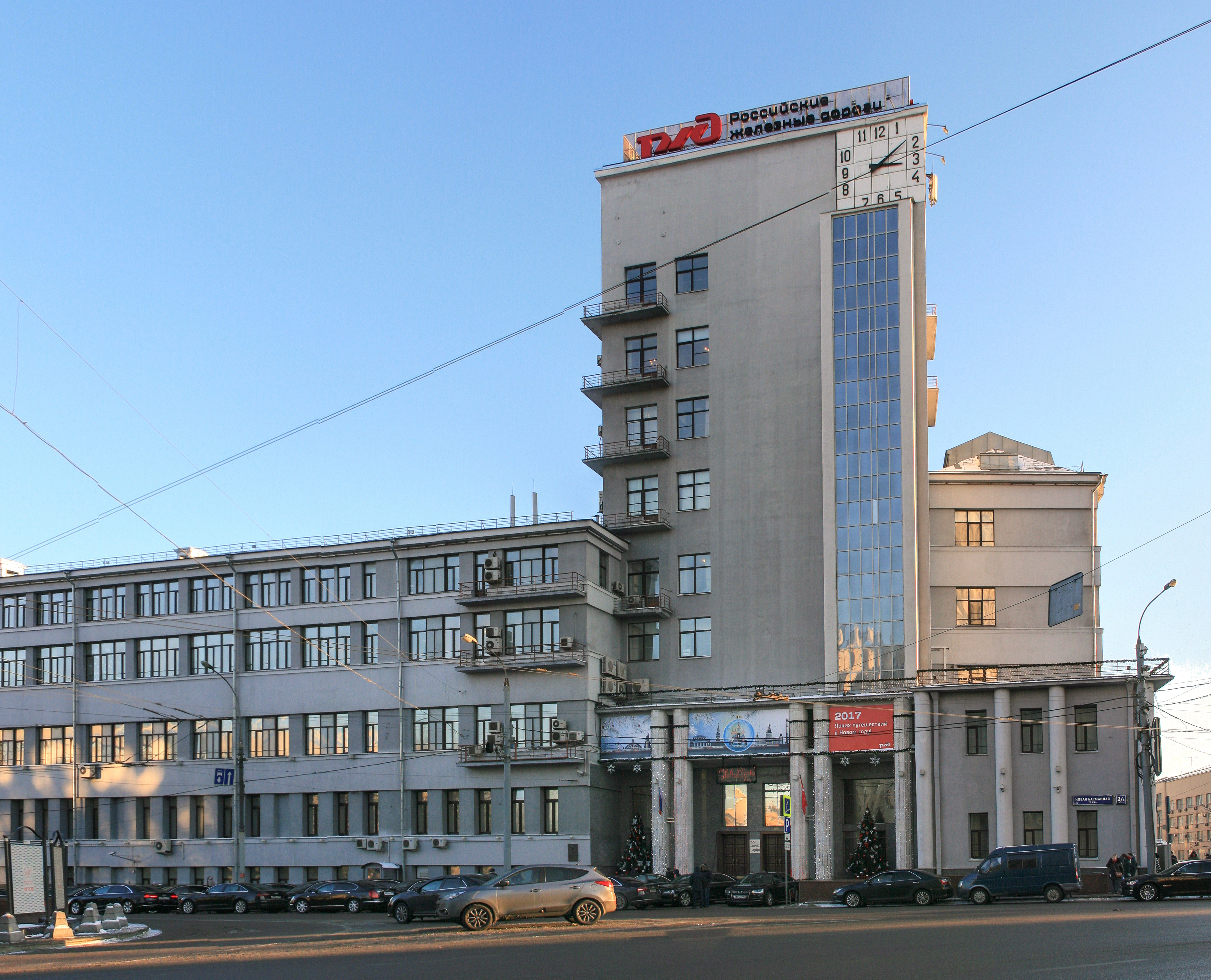 Commissariat of Railways, Moscow